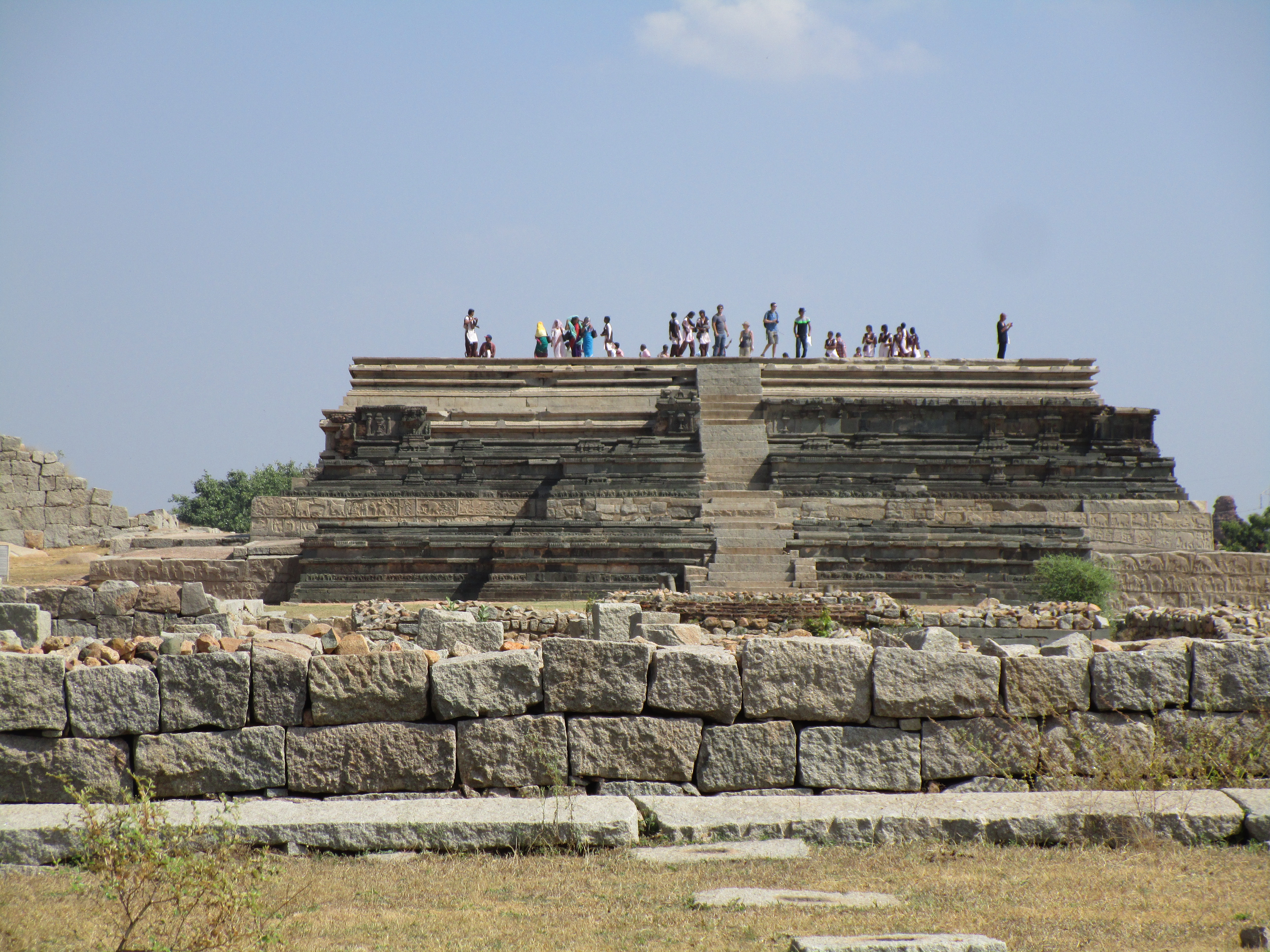 iii) Throne Platform